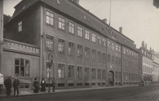 Det Harboeske enkefruekloster on Stormgade in Copenhagen, Denmark